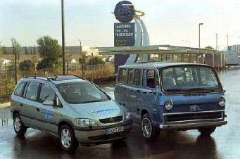 1966 GM Electrovan: a modified GMC Handivan powered by fuel cells.